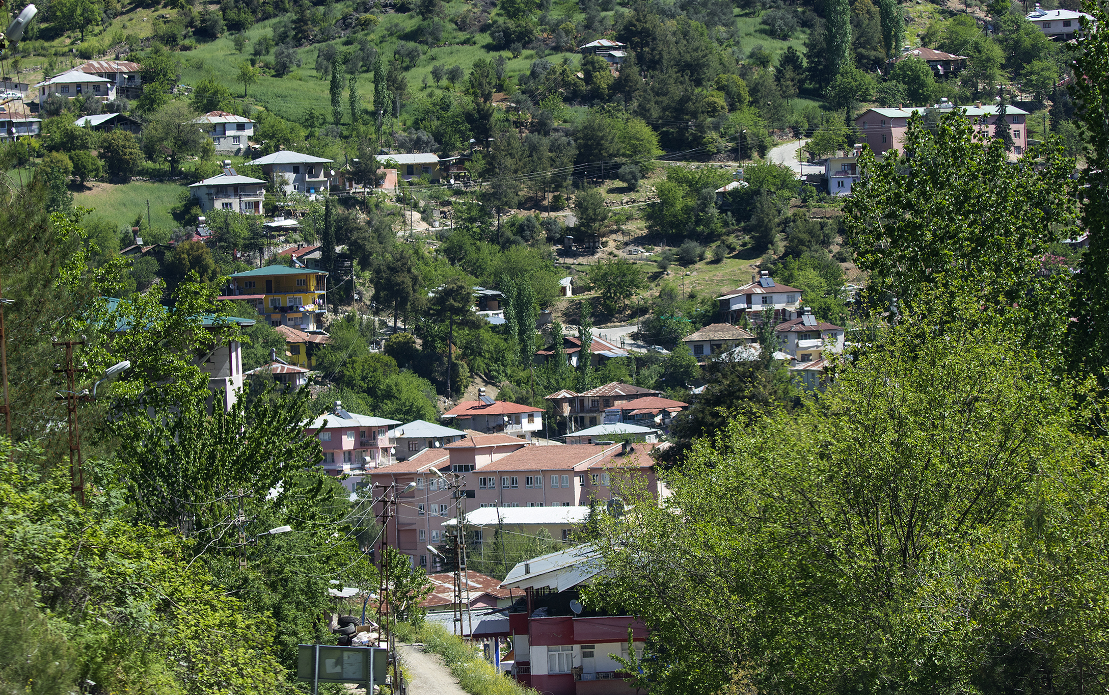 A partial view of Feke town, the district center of Feke in Adana province, Turkey.